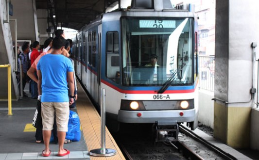 A Manila Line 3 train